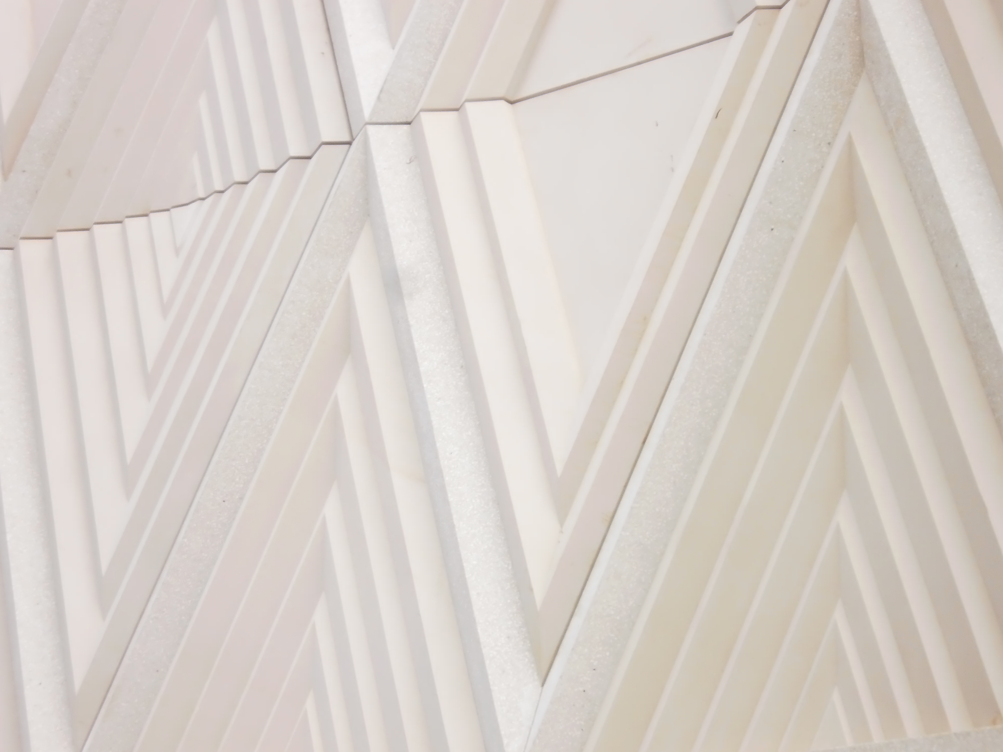 Leeds John Lewis, diagonals